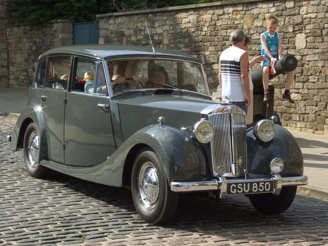 Castle Hill, Lincoln - Vehicle DVLA=1952 Triumph Renown 2000